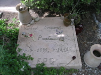 Photo of Robert Graves' grave in Deya, Mallorca. The photo is my own work, taken April 28, 2006. I give perimssion to use this photo under the Creative Commons CC-BY-SA-2.5.